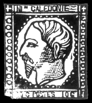 A drawing of the first New Caledonia stamp issued by Louis Triquéra in 1860 that depicts Napoleon III of France.